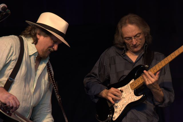 Sonny Landreth jams with Jerry Douglas at MerleFest, April, 2011. Wilkes County, N.C. Photo by Forrest L. Smith, III.